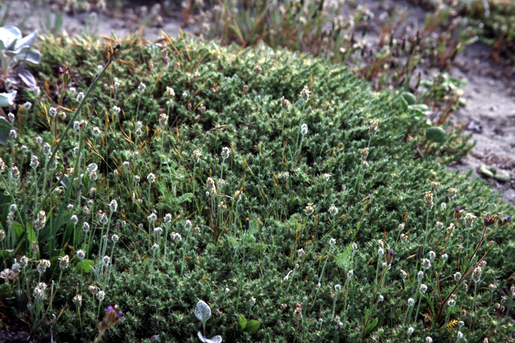 Cardionema ramosissimum — Sandcarpet. At the Humboldt Bay National Wildlife Refuge, Humboldt County, coastal Northern California.